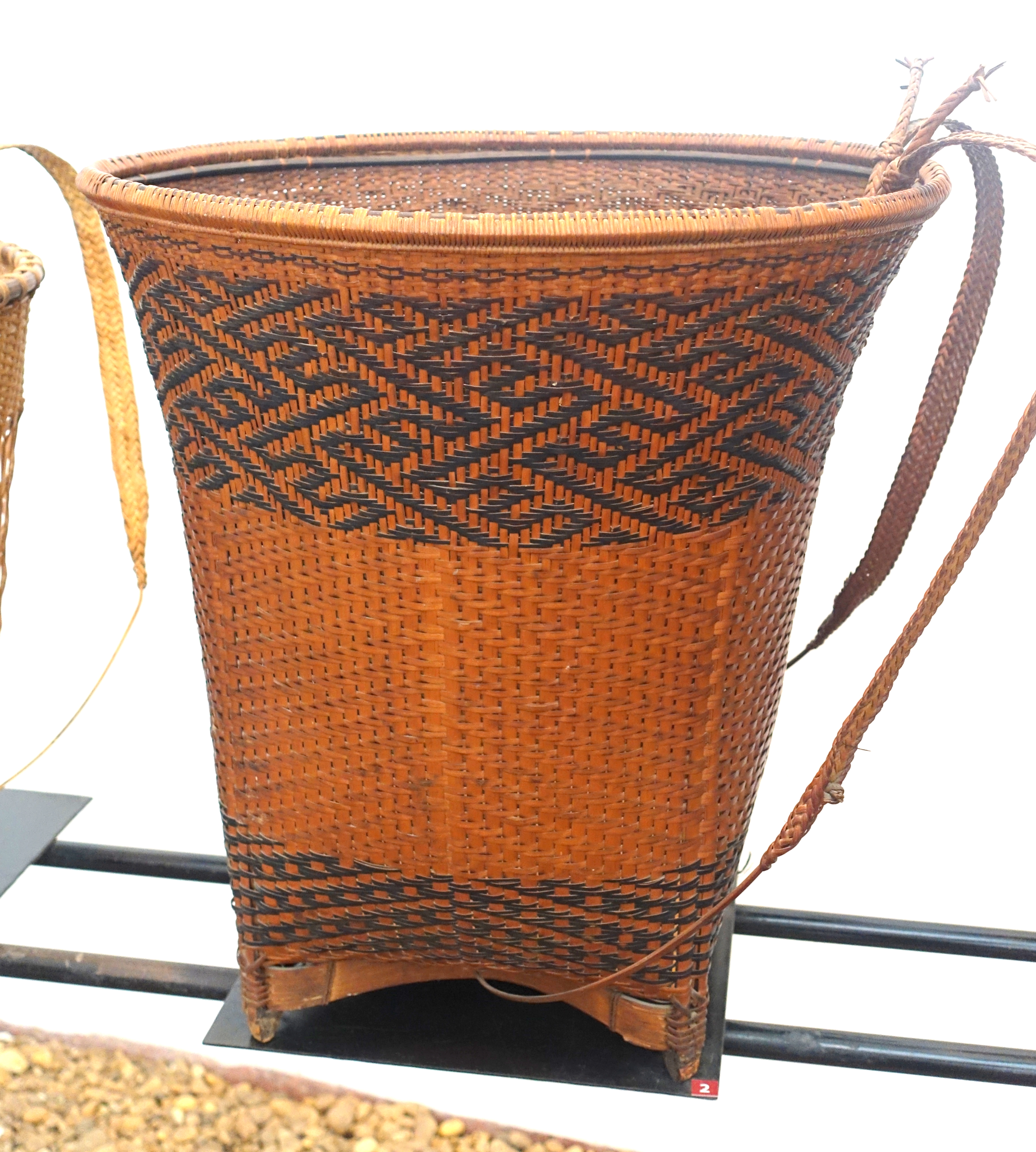 Exhibit in the Vietnam Museum of Ethnology - Hanoi, Vietnam.